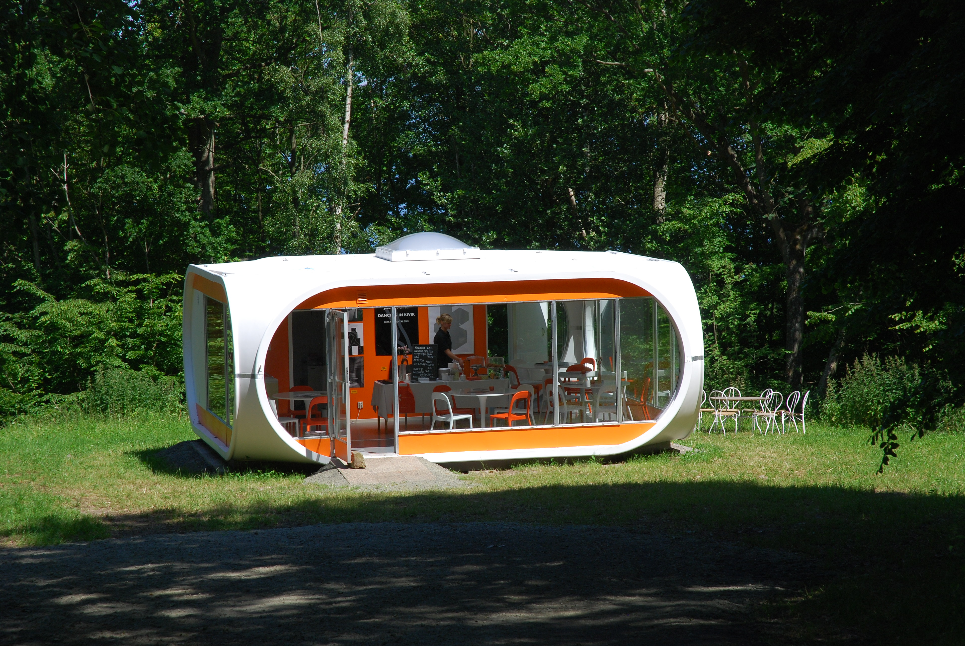 Matti Suuronens glass fibre type house Venturo, Kivik Art Centre, Kivik, Sweden